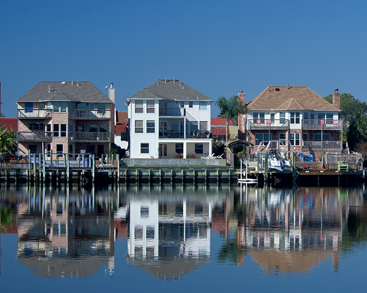 Houses in Nassau Bay by the side of Clear Lake